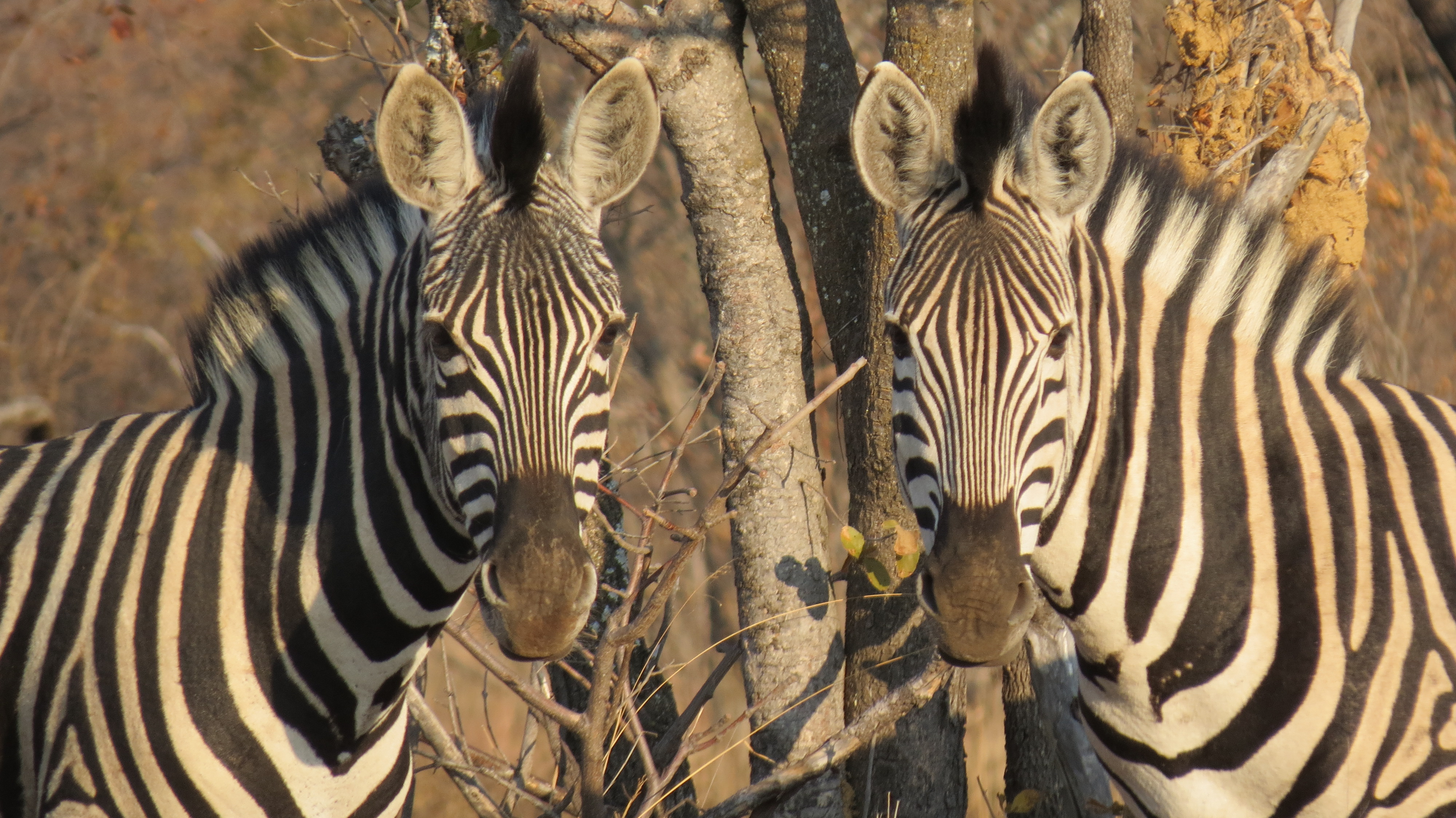 2 zebras by sunset